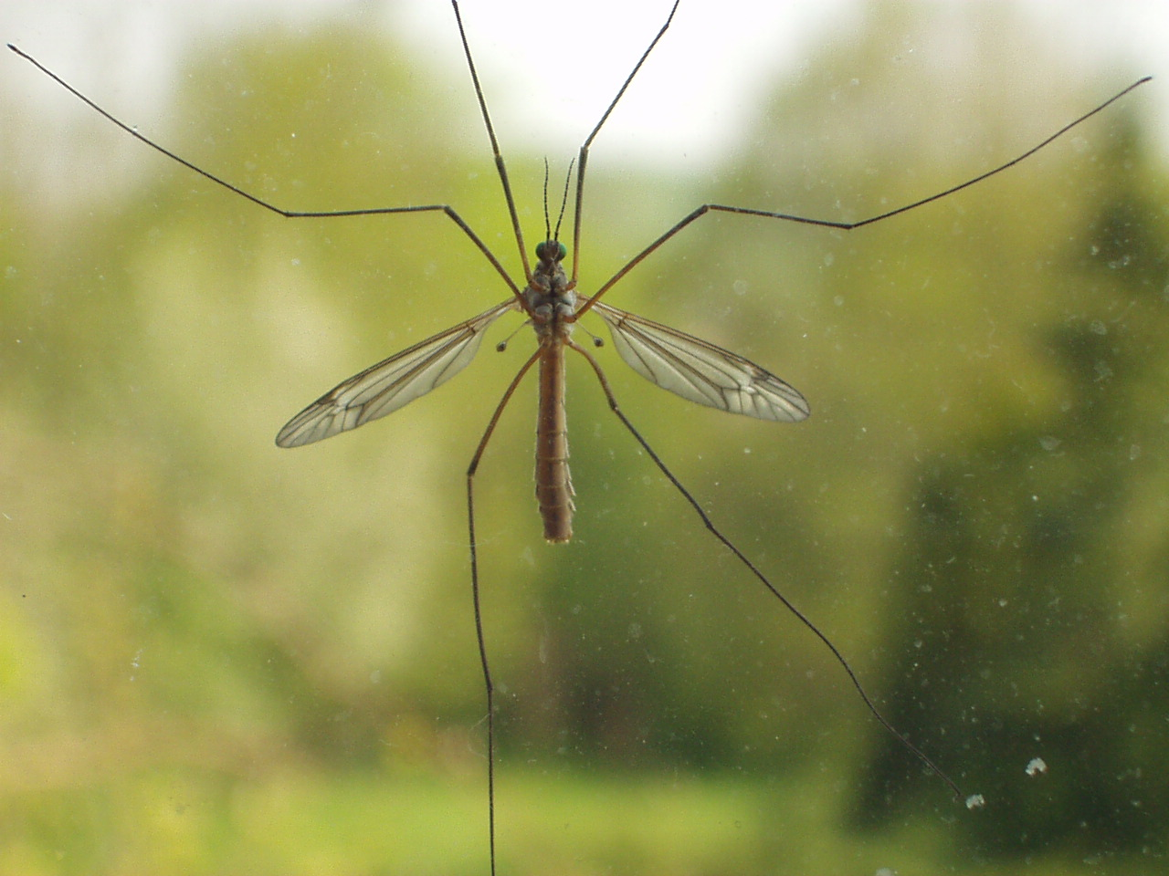 A crane fly on a window, photo by me.